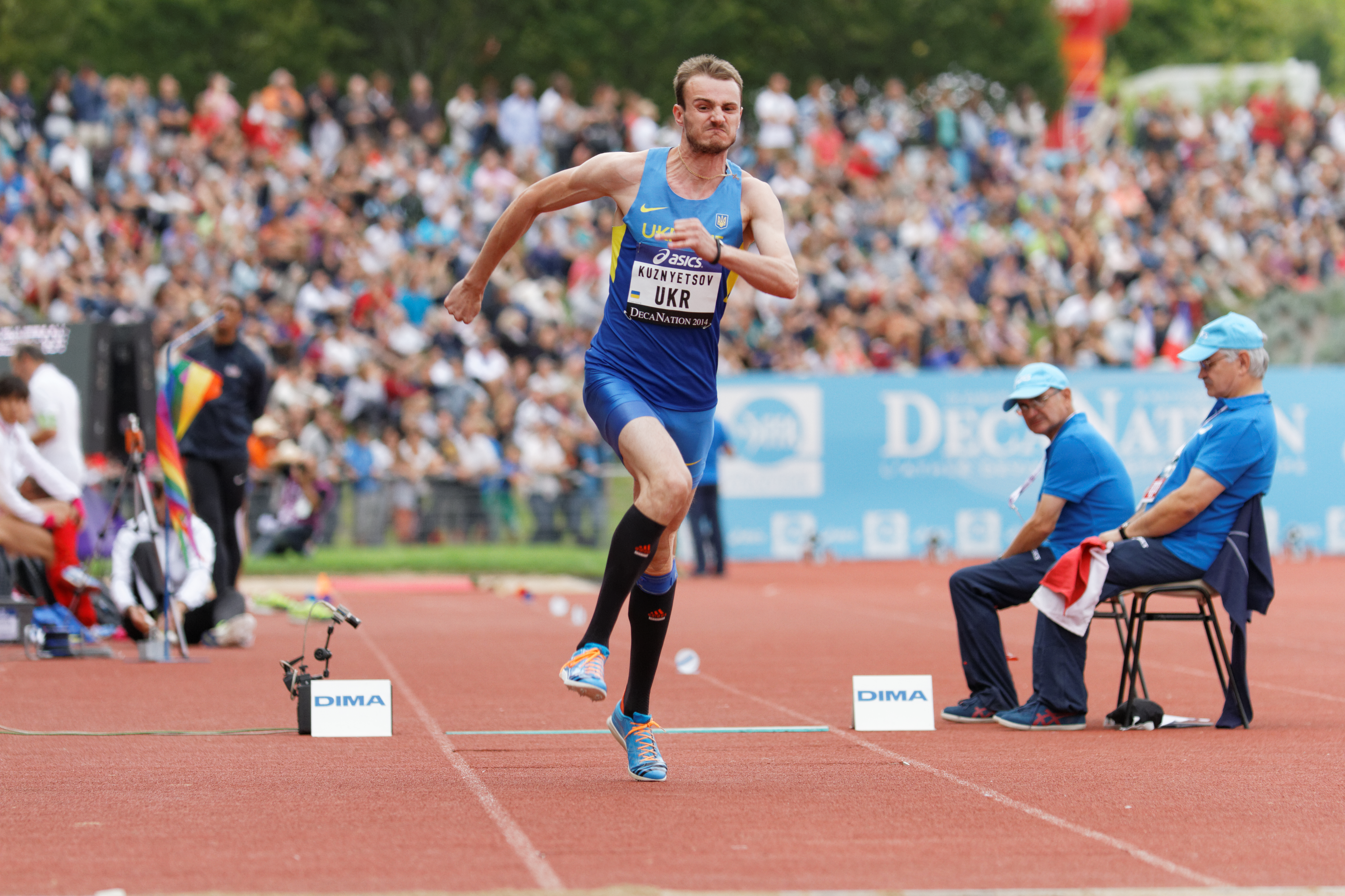 DécaNation 2014